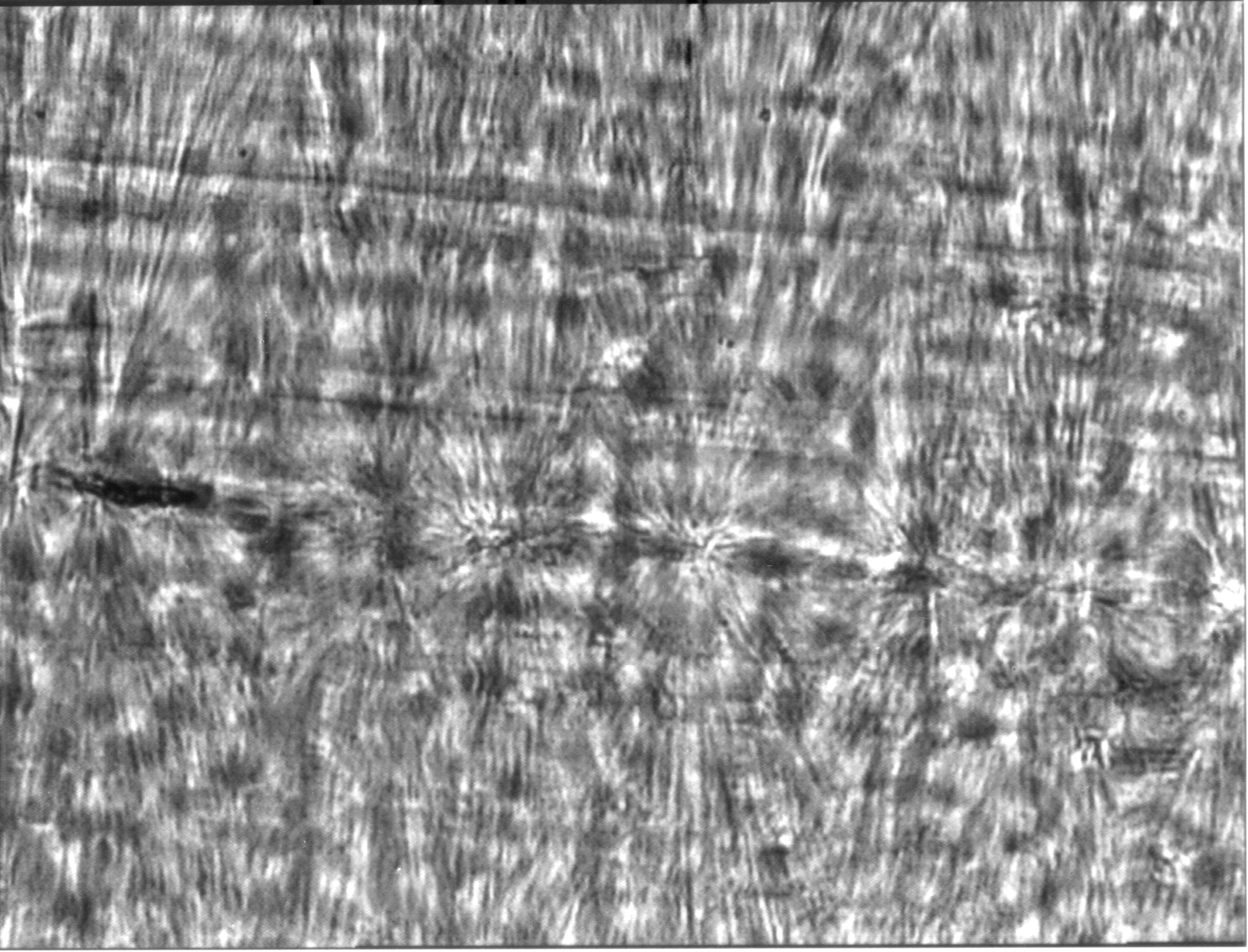 Micro graph of polypropylene with a light microscope. Semi-crystalline polymer, visible spherulite structures.